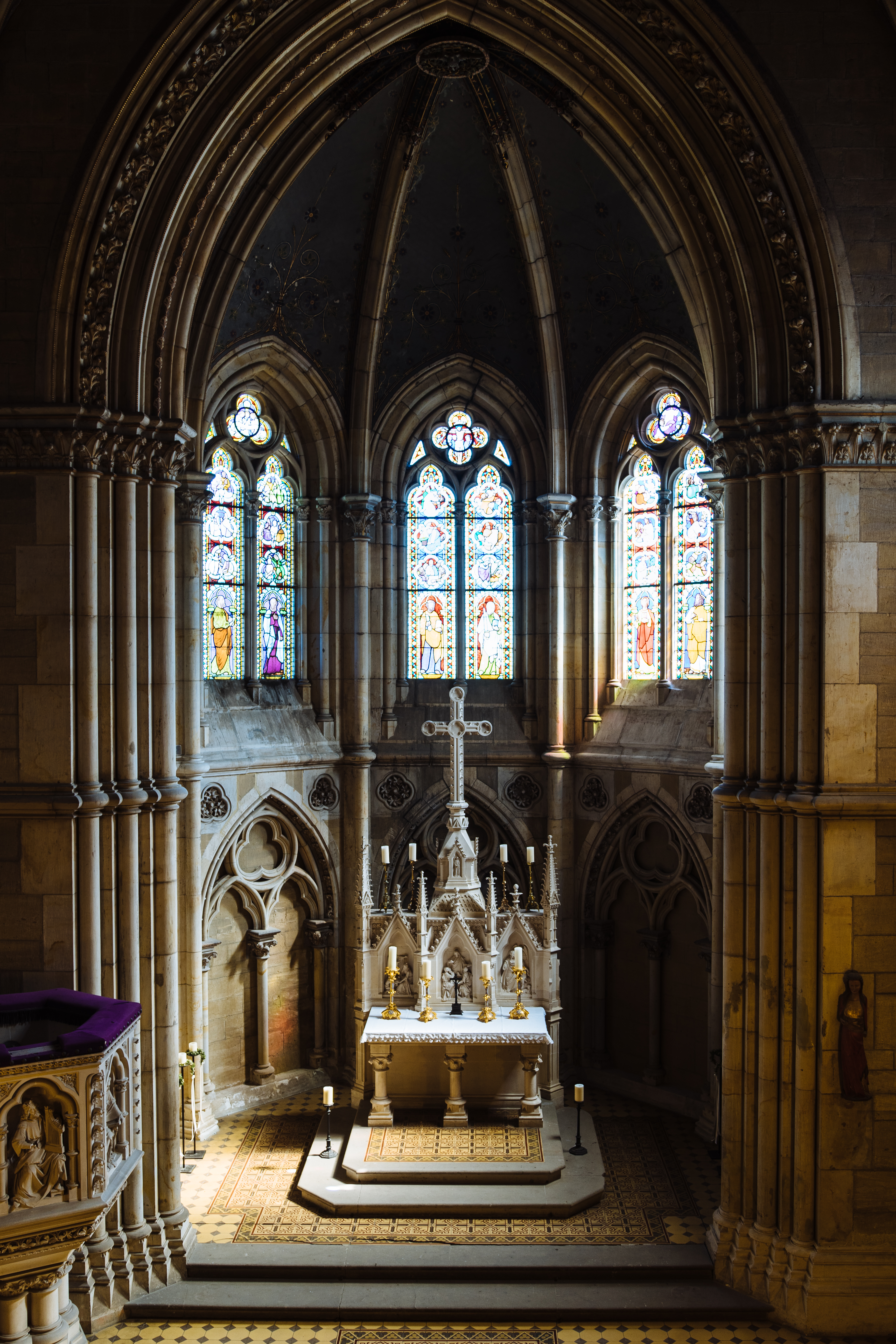 Chapel St. Pantaleon und Anna of Wernigerode castle, 2017